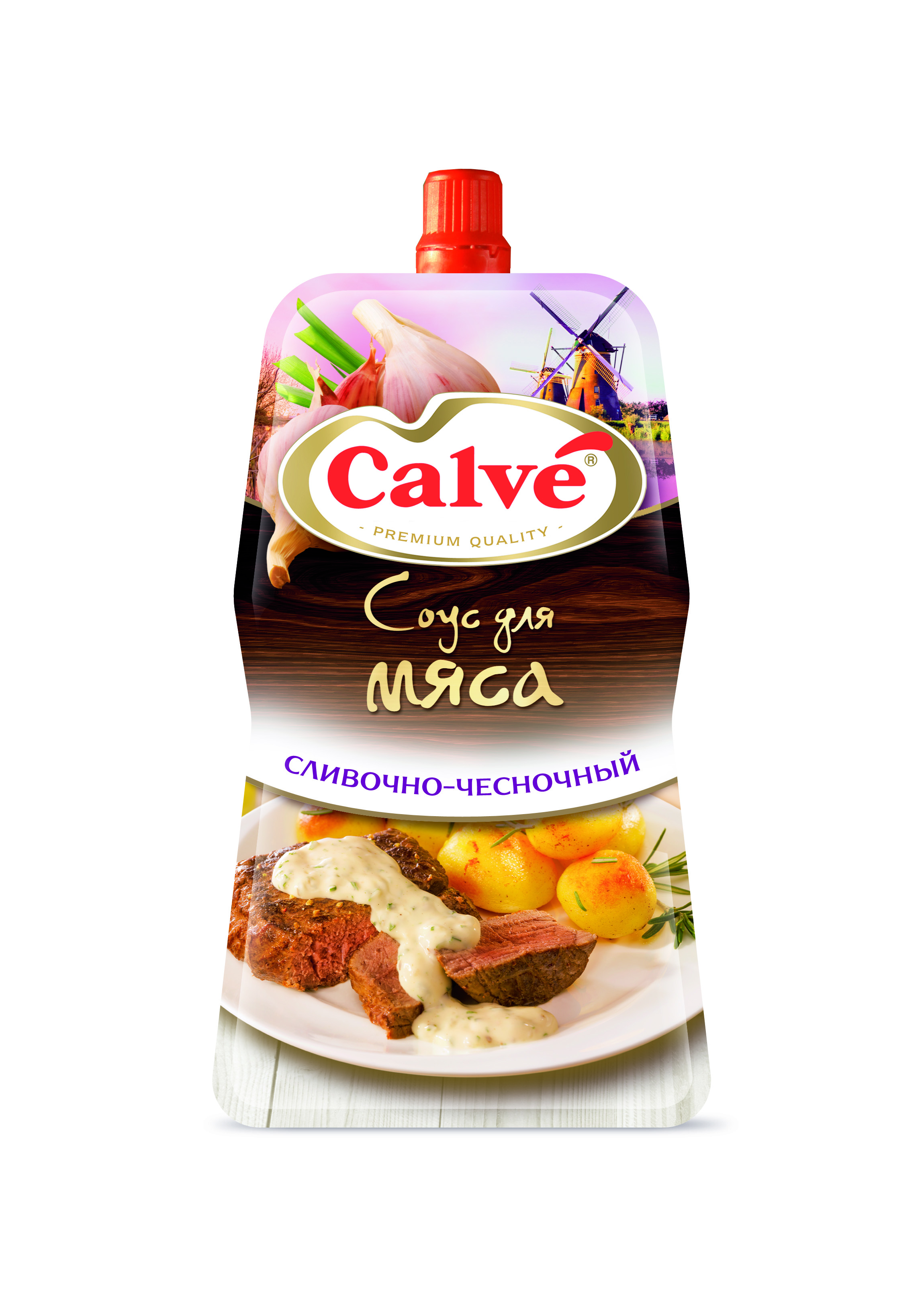 calve soys